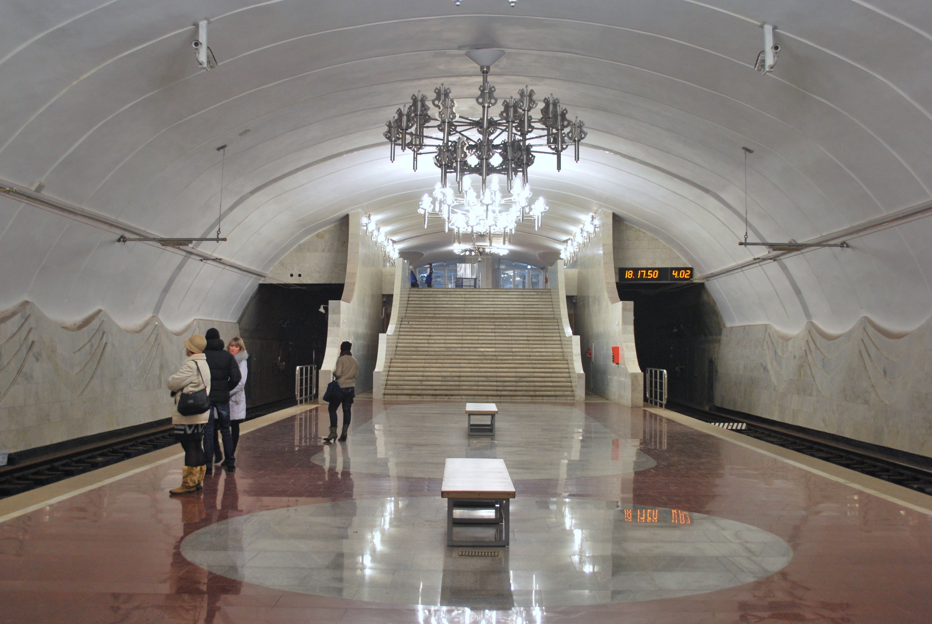 TUZ (volgograd metrotram station).